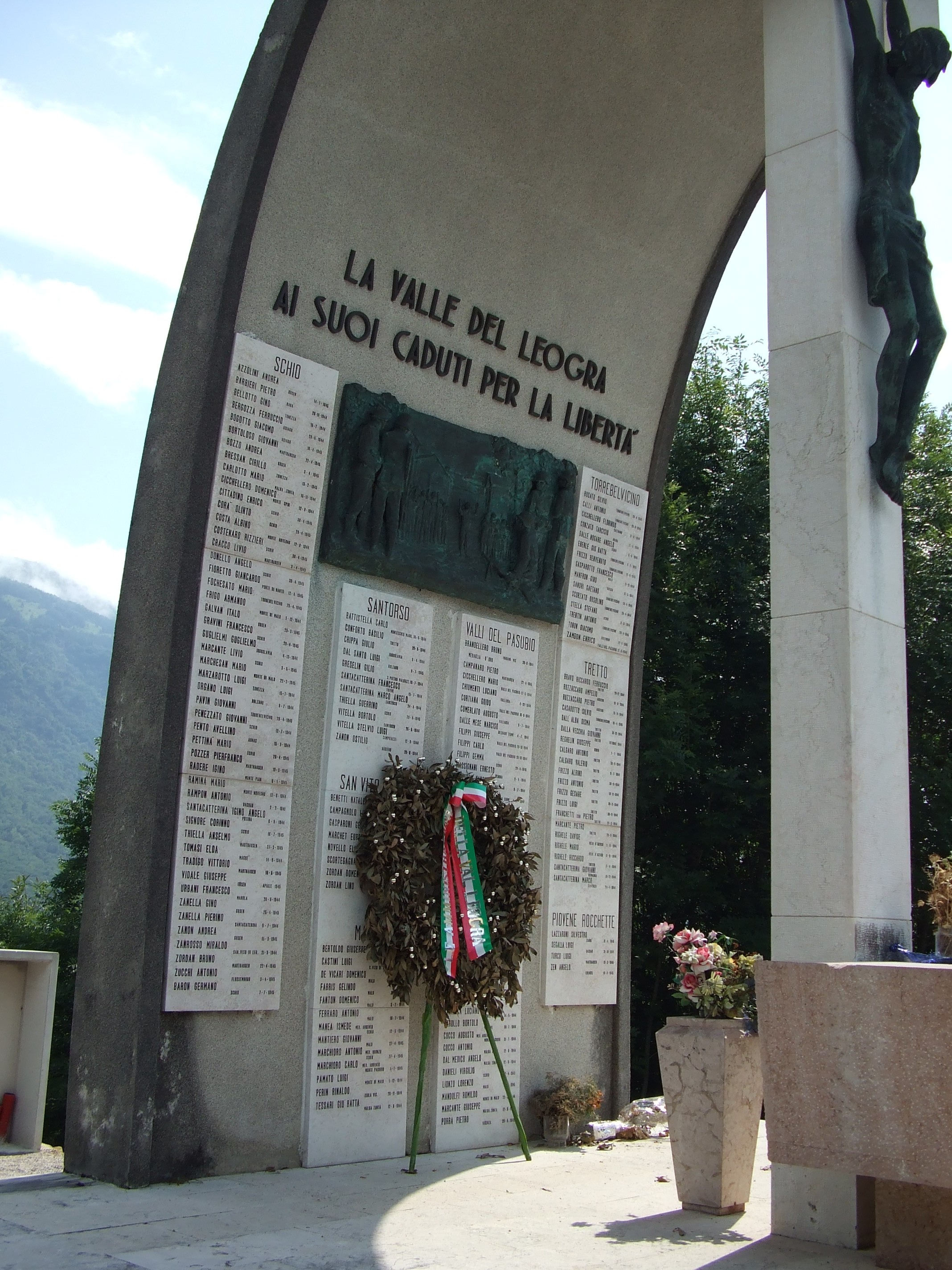 Vallortigara, Novegno (Veneto, Northern Italy). Monument to the partisans.